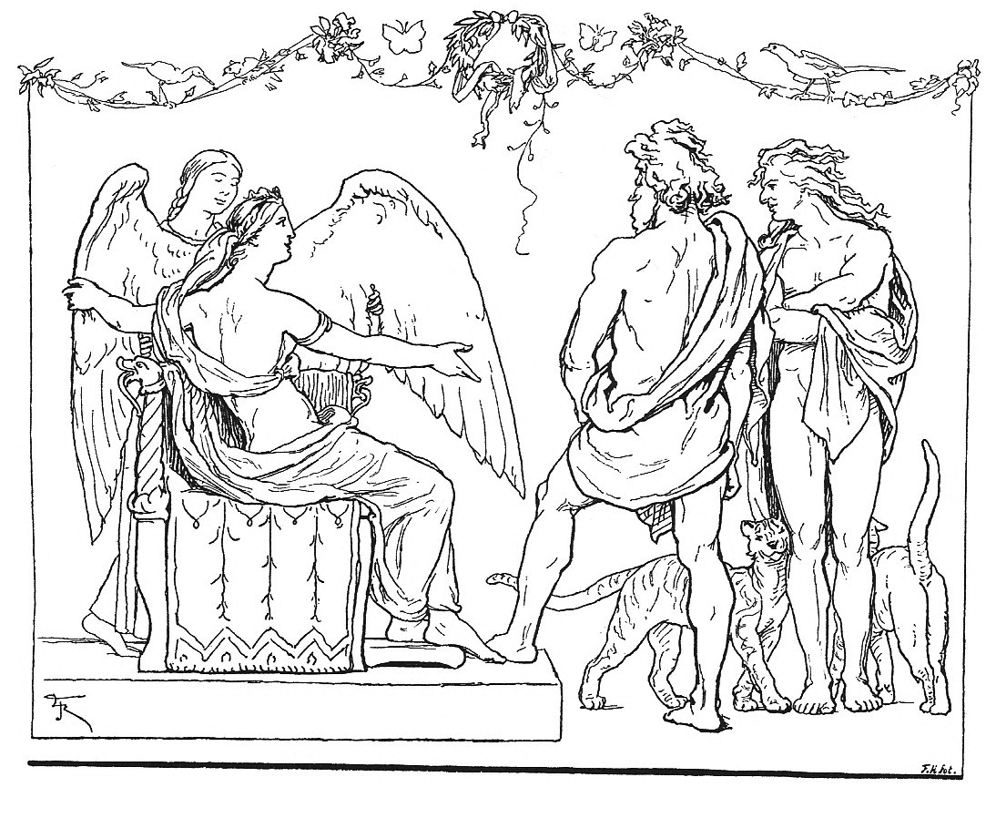 Freyja (with an unnamed servant) present Thor and Loki with her feather cloak, as told in Þrymskviða. Freyja's cats seem fond of Loki.